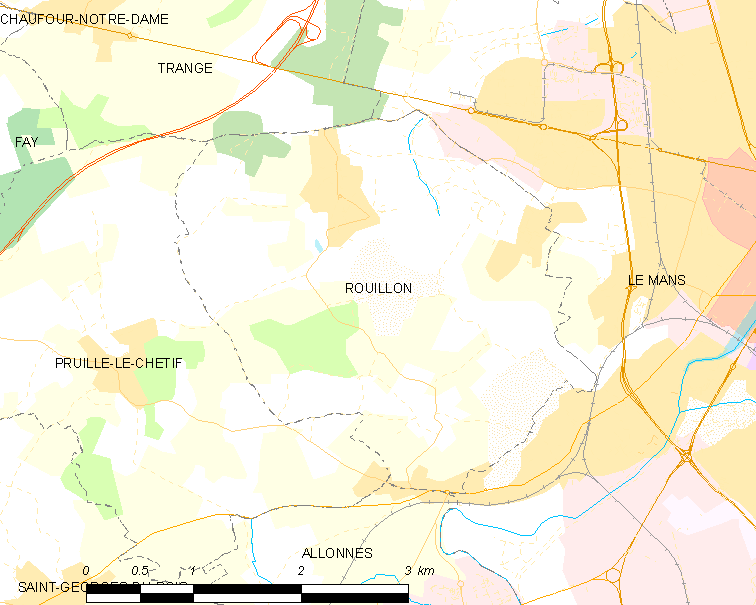 Map of French municipality